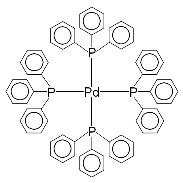 Chemical Structure of Tetrakis(triphenylphosphine)palladium(0) The four phosphorus (P) atoms are in a square planar arrangement with a palladium (Pd) atom in the center. H Padleckas created this image file on November 26-27, 2005 especially for use in the article "Tetrakis(triphenylphosphine)palladium(0)" in Wikimedia. H Padleckas 19:15, 27 November 2005 (UTC)